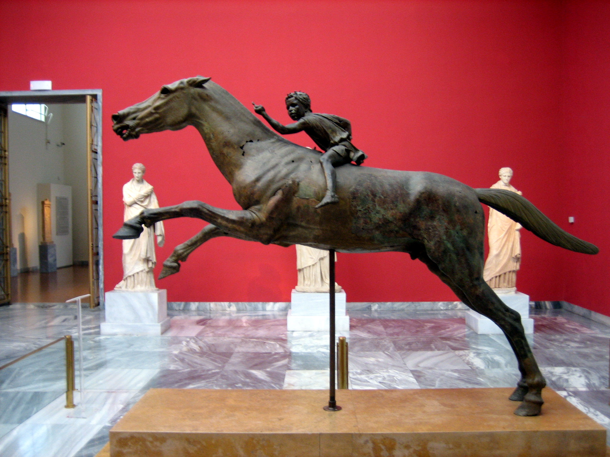 Retrieve in pieces from the shipwreck off Cap Artemision in Euboea. About 140 BC.